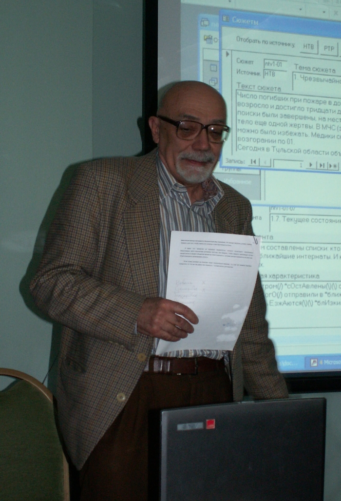 Sandro Kodzasov, Russian linguist